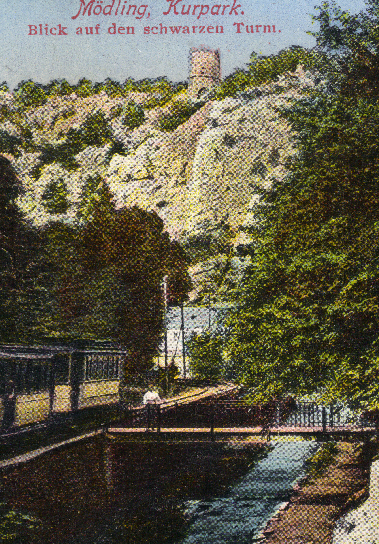 Tramway line Vorderbrühl to Hinterbrühl near Kurpark